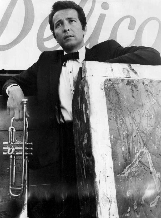 Publicty photo of musician Herb Alpert.